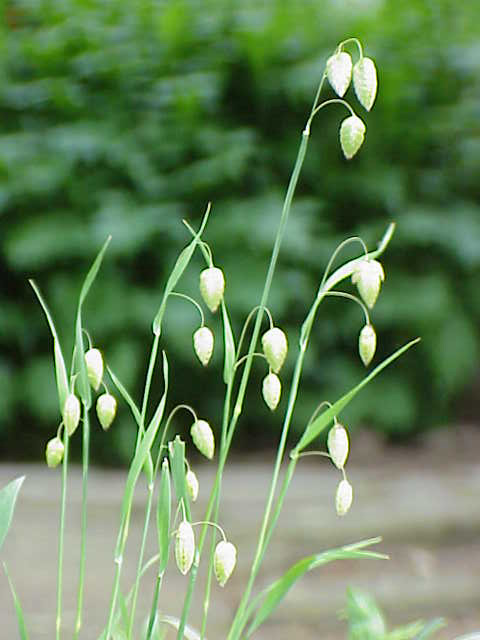 Species: Briza maxima Family: Poaceae Image No. 2